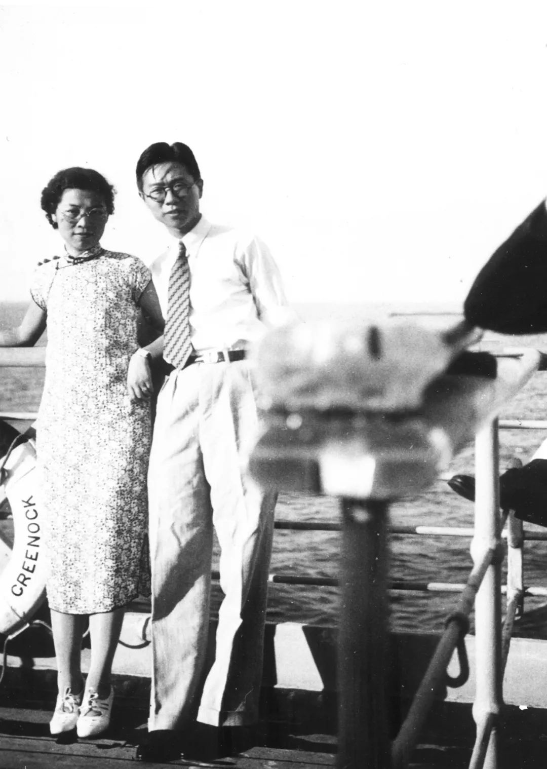 Chinese scientists Lu Shijia and Zhang Wei on a ship to Europe